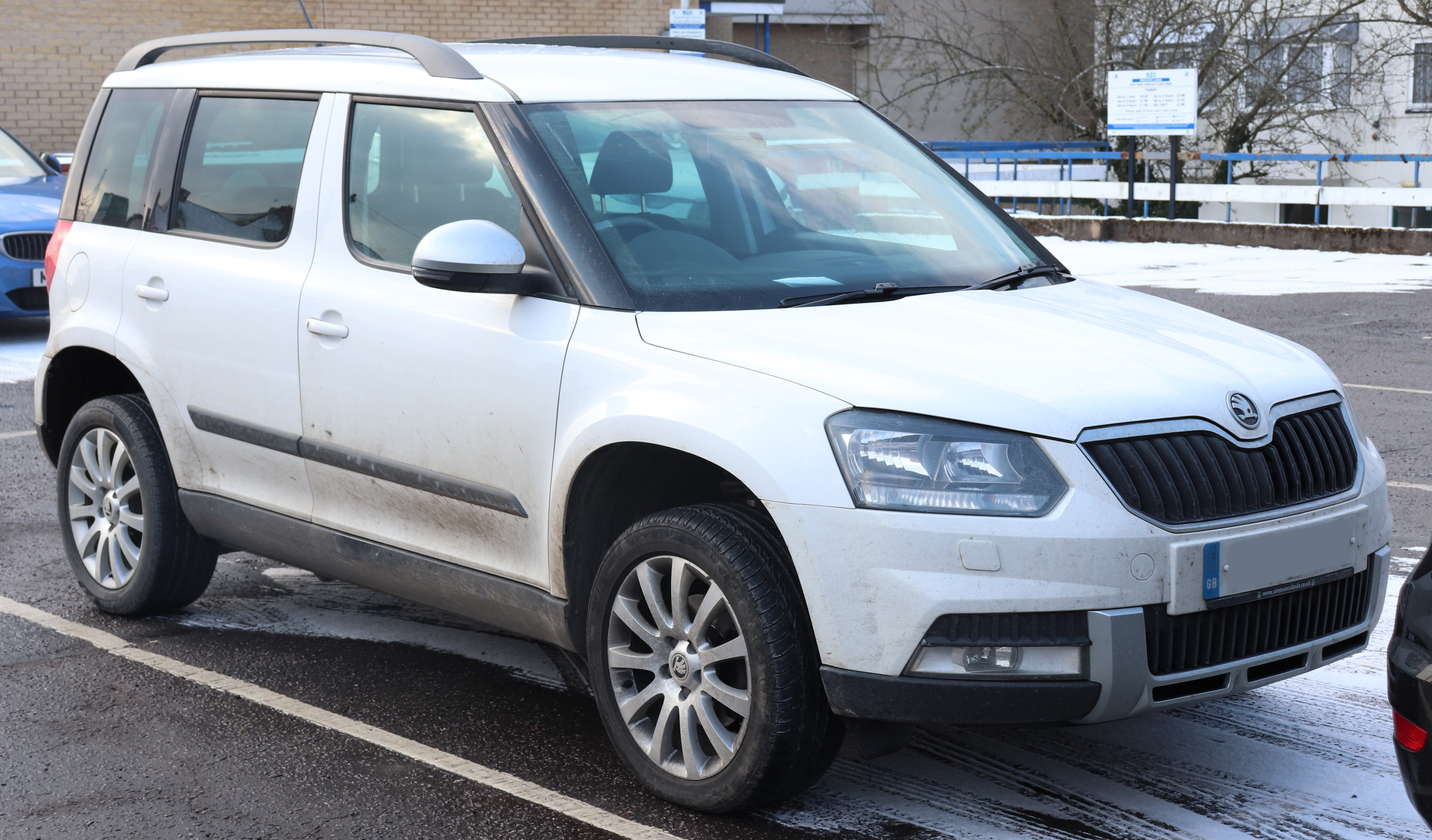 2015 Skoda Yeti Outdoor SE TDi CR 4X4 2.0 Taken in Leamington Spa